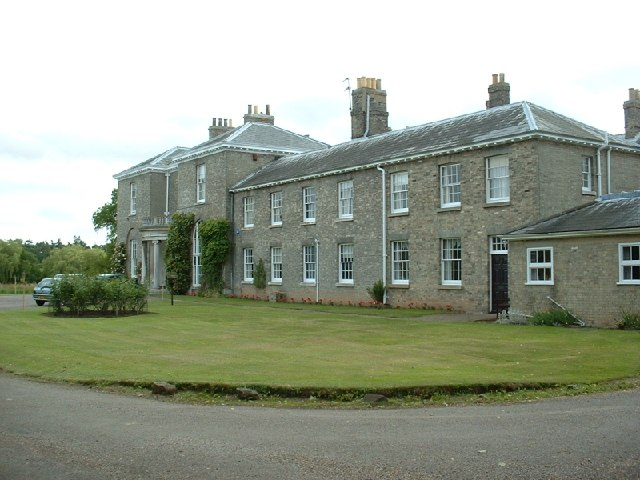 Hoveton Hall. Hoveton Hall, near Wroxham